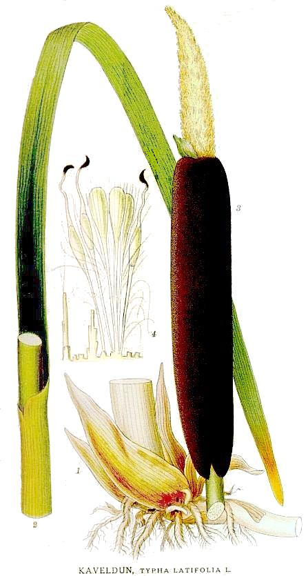 Typha latifolia L. Original Description Kaveldun, Typha latifolia L.